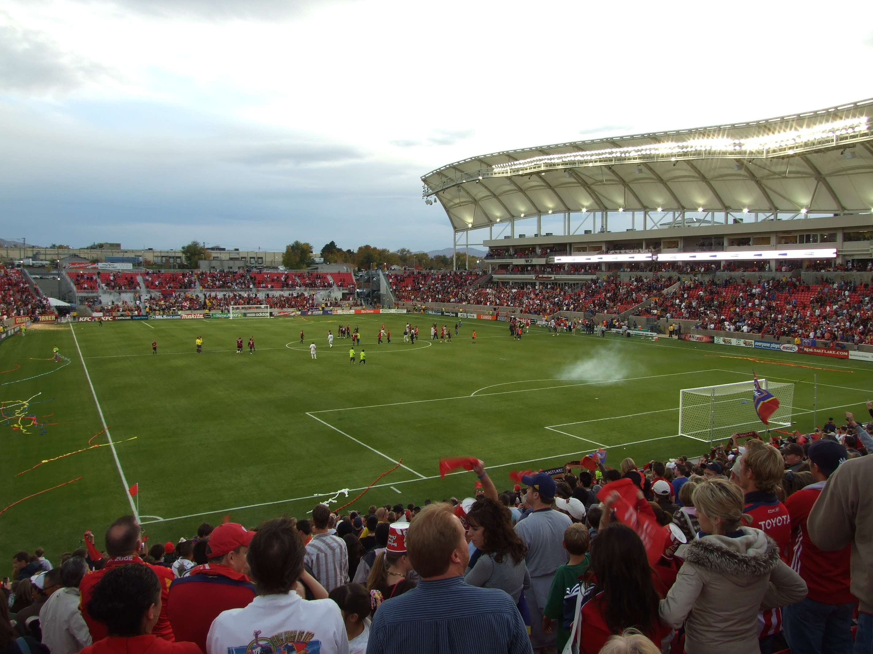 Rio Tinto Stadium after RSL defeated Chivas 1-0 in a playoff game.